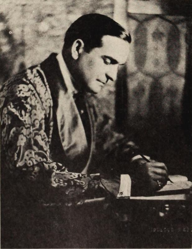 Actor Earle Williams, on page 66 of the September 11, 1920 Exhibitors Herald.